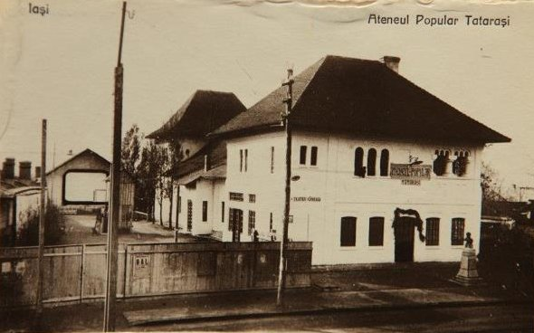 Tatarasi Athenaeum, Iasi, Romania